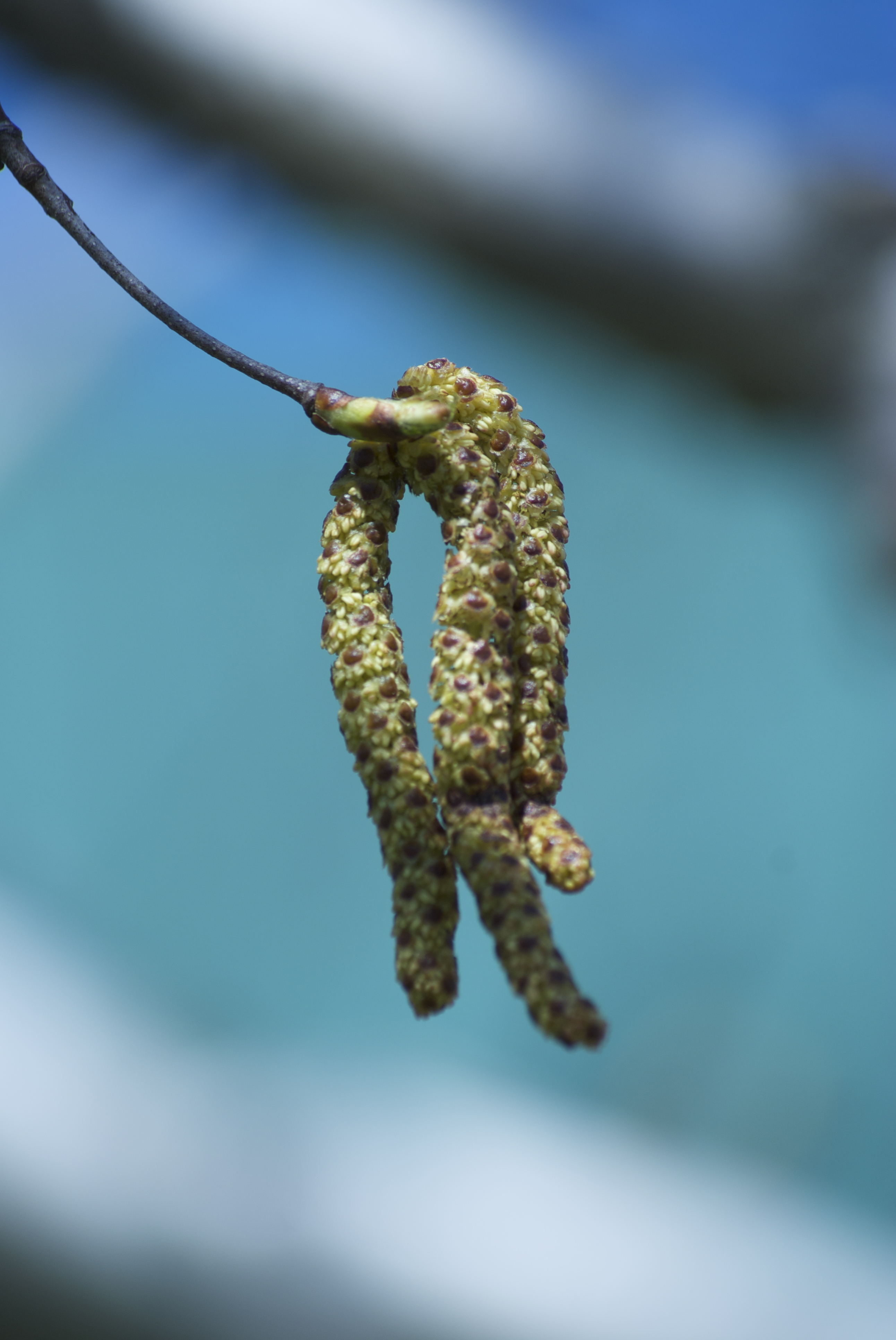 Catkin on a birch